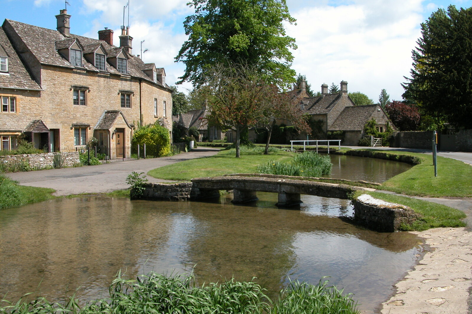 Lower Slaughter. Picturesque Cotswold village with the river Eye flowing through its centre. The word 'slaughter' is derived from Anglo Saxon meaning a muddy place.